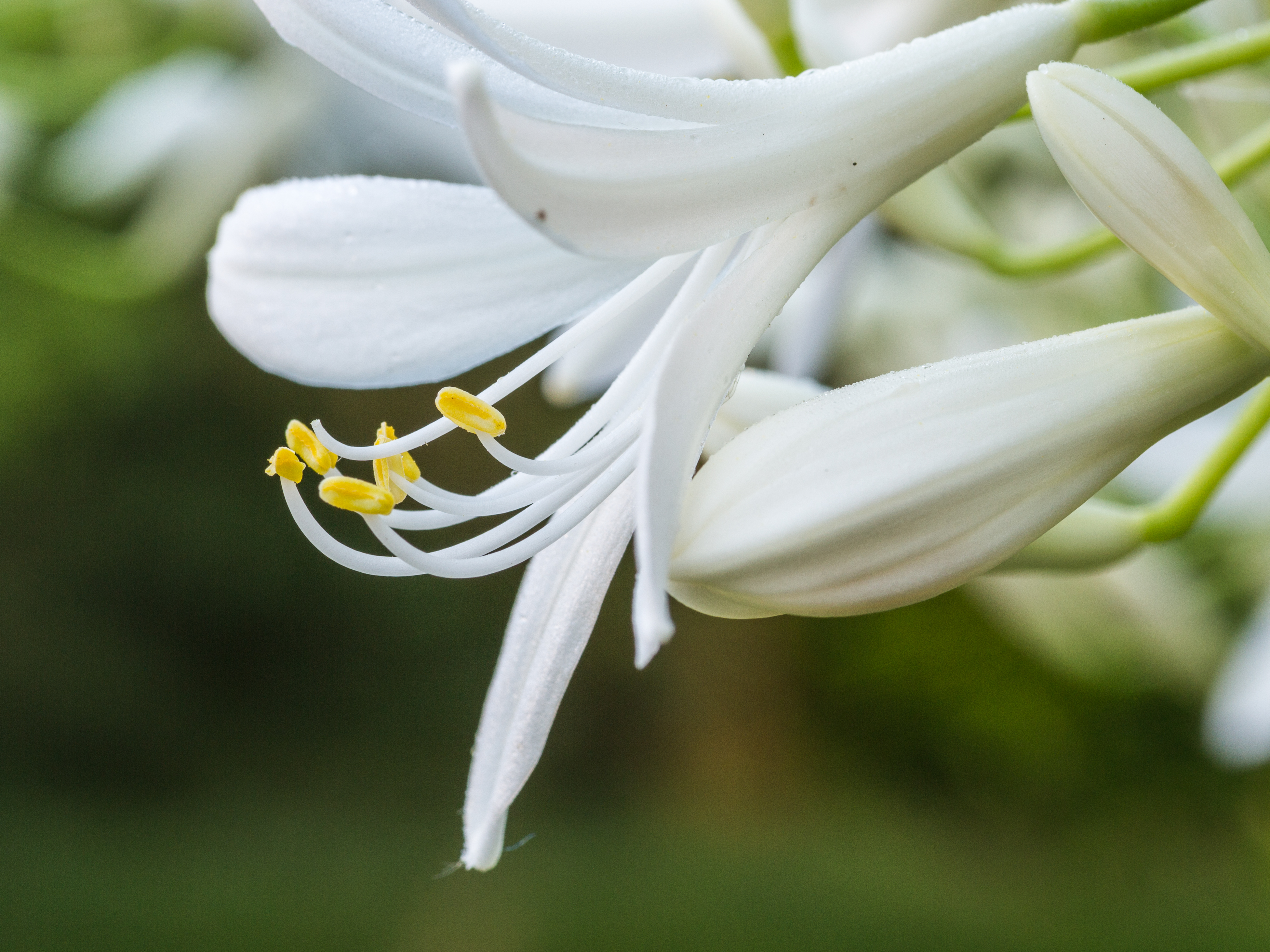 Pistil and stamens of the flower of an evergreen white Agapanthus cultivar.